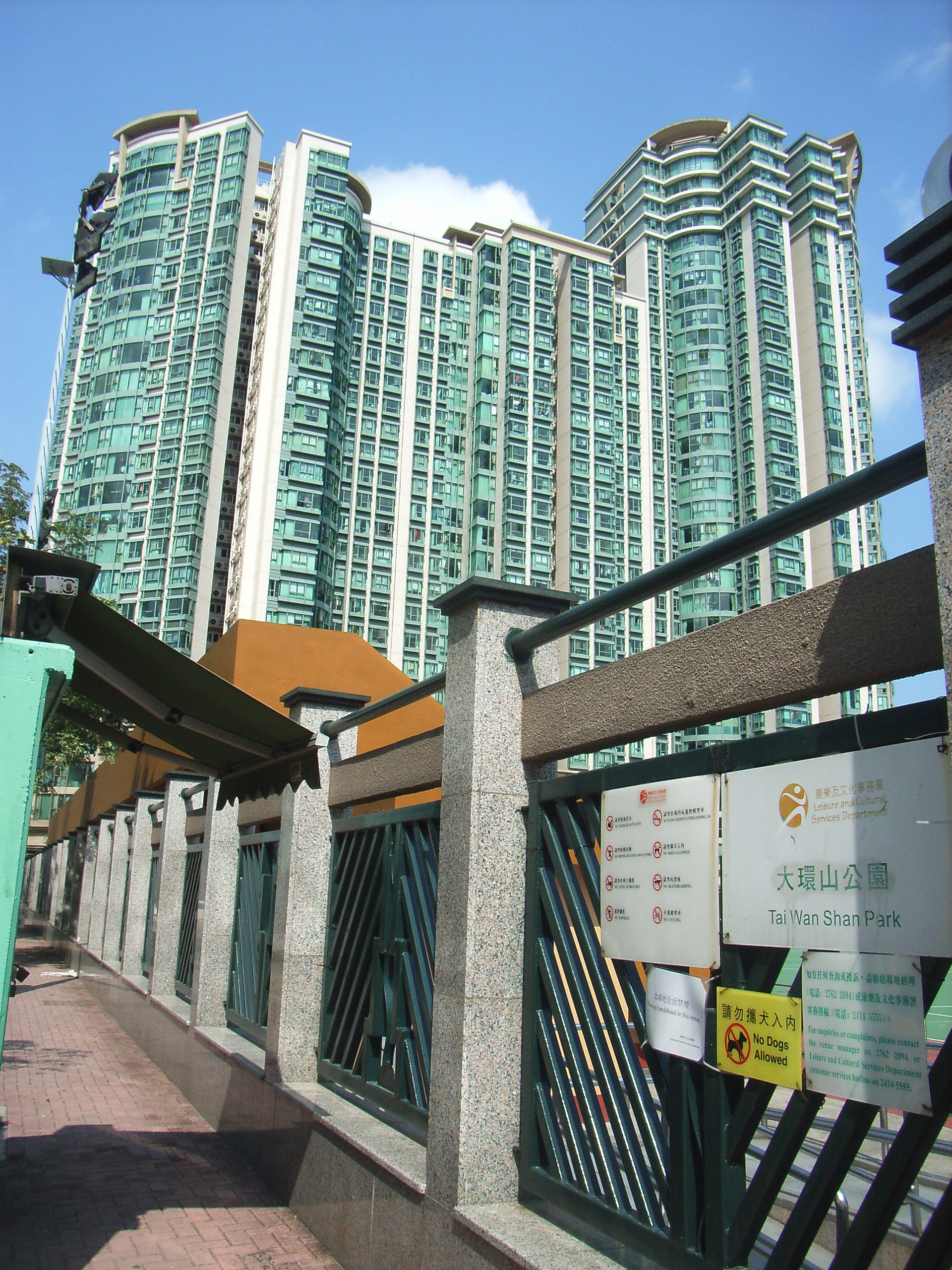 位於大環的一個zh:公園, 名為zh:大環山公園, 它鄰近zh:紅磡zh:灣海街及海逸豪園翠堤灣. Photo created by User:HungBEER.